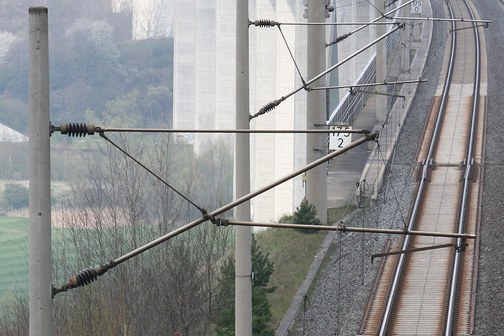 Catenary mast with extension and overhead line (type Re250) on the Hannover-Würzburg high-speed railway line.